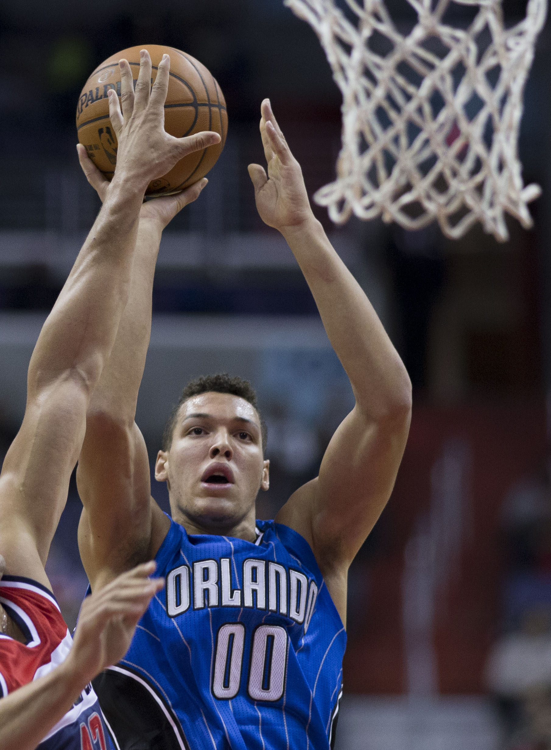 Aaron Gordon of the Orlando Magic in action against the Washington Wizards during the game on November 15, 2014 at Verizon Center in Washington, DC.